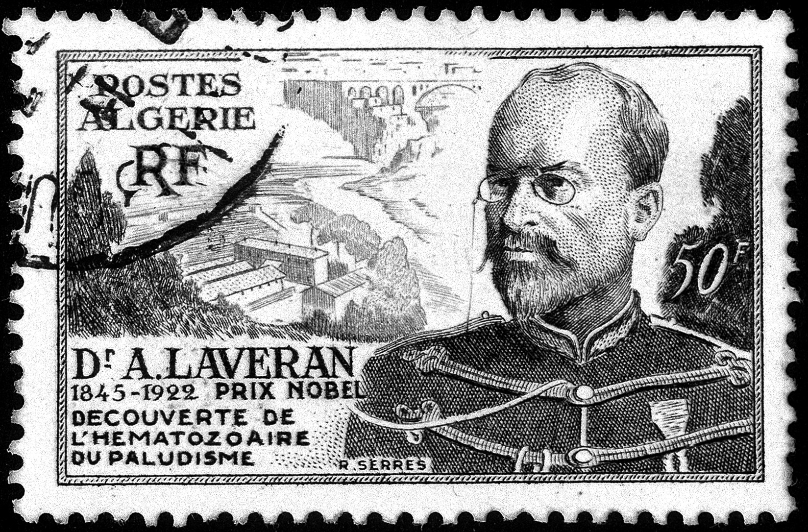 Stamp showing C.L.A. Laveran, issued by Algeria in 1954. From the collection of S.H. Watkins. Wellcome Images Keywords: Charles Louis Alphonse Laveran